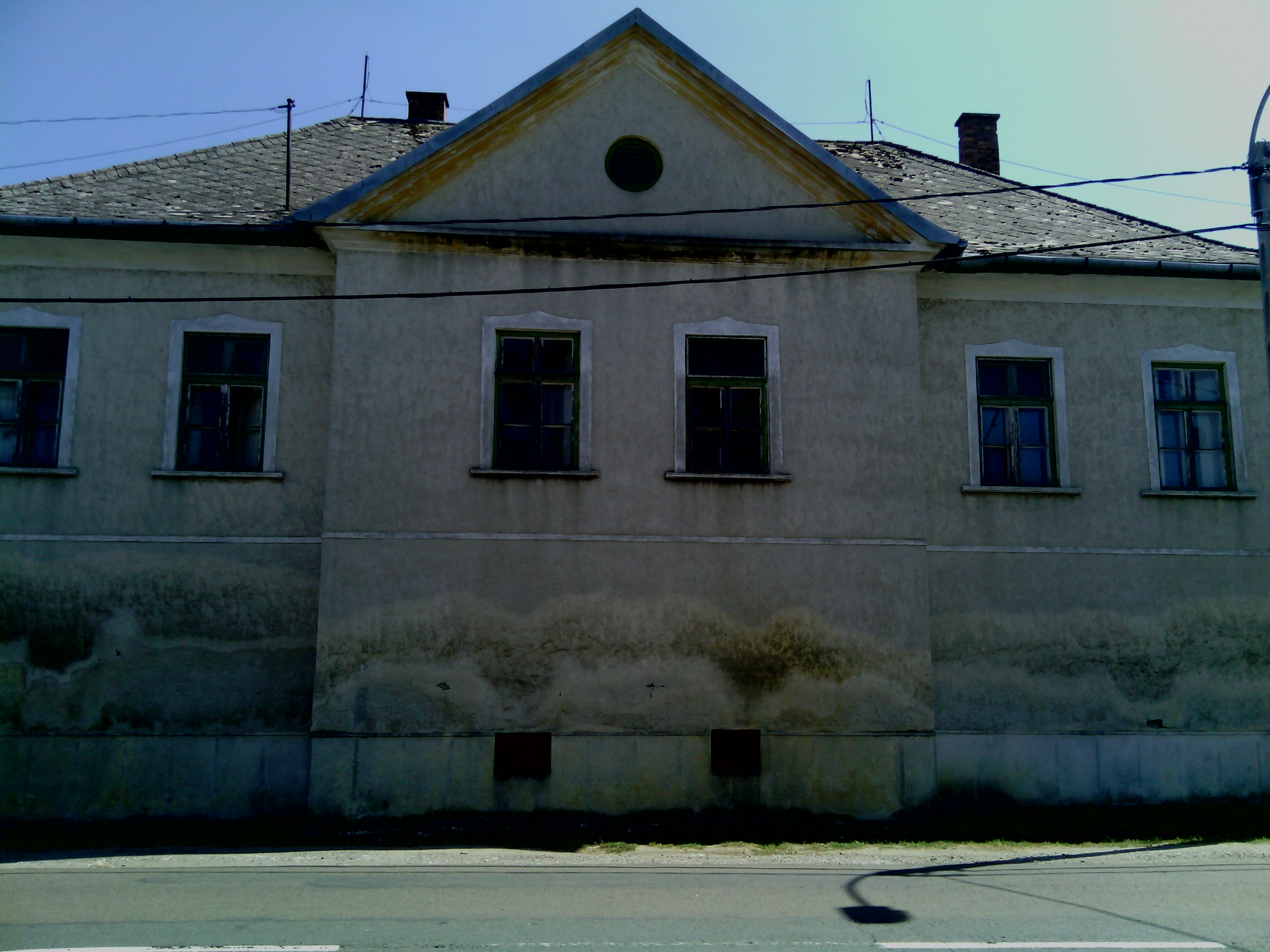 Parish of Bükkszenterzsébet on Route 23, Hungary